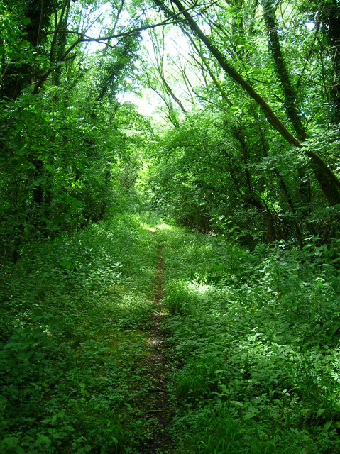 Former Ardingly Branch Line Looking down the former trackline of the dismantled Ardingly branch line. Linking the main London-Brighton line with that of Lewes-East Grinstead branch line it operated from 1863-1963 before closing. Part of the line remains in use as a siding for Hanson Aggregates based at the former Ardingly station. Beyond that the trackbed is in the ownership of the Bluebell Railway who took up an oppotunity to purchase the land in the 1990s with a view to reopen the link from Horsted Keynes to Haywards Heath. This part looks back towards Ardingly station from the point where a permissive footpath climbs up embankment.